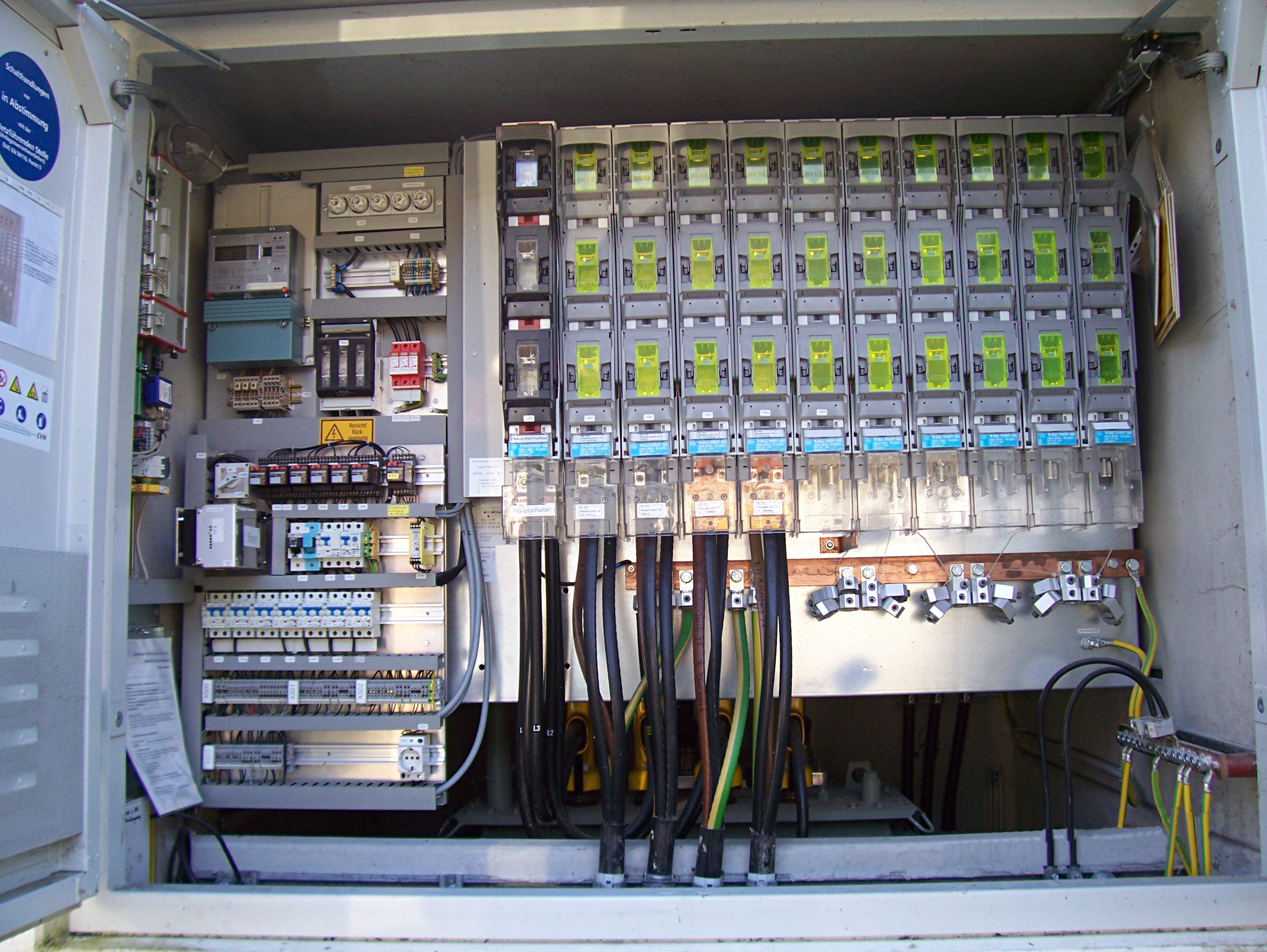 Low side of distribution substation; as you can see panel products on left, this substation is remote controlled. Also, replacing process of knife fuses here is really safe and can't kill electricians by arc.